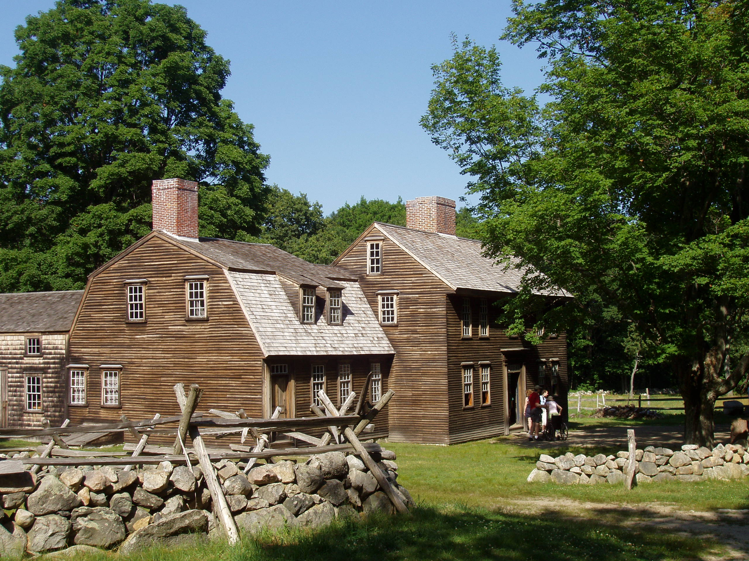 Hartwell's Tavern, in the Minute Man National Historical Park, Lexington, Massachusetts. This restored tavern is along the approximate route of Battle Road, the site of running skirmishes between British and Colonial troops during the Battle of Lexington and Concord.